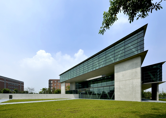 Asia Museum of Modern Art (larger version)